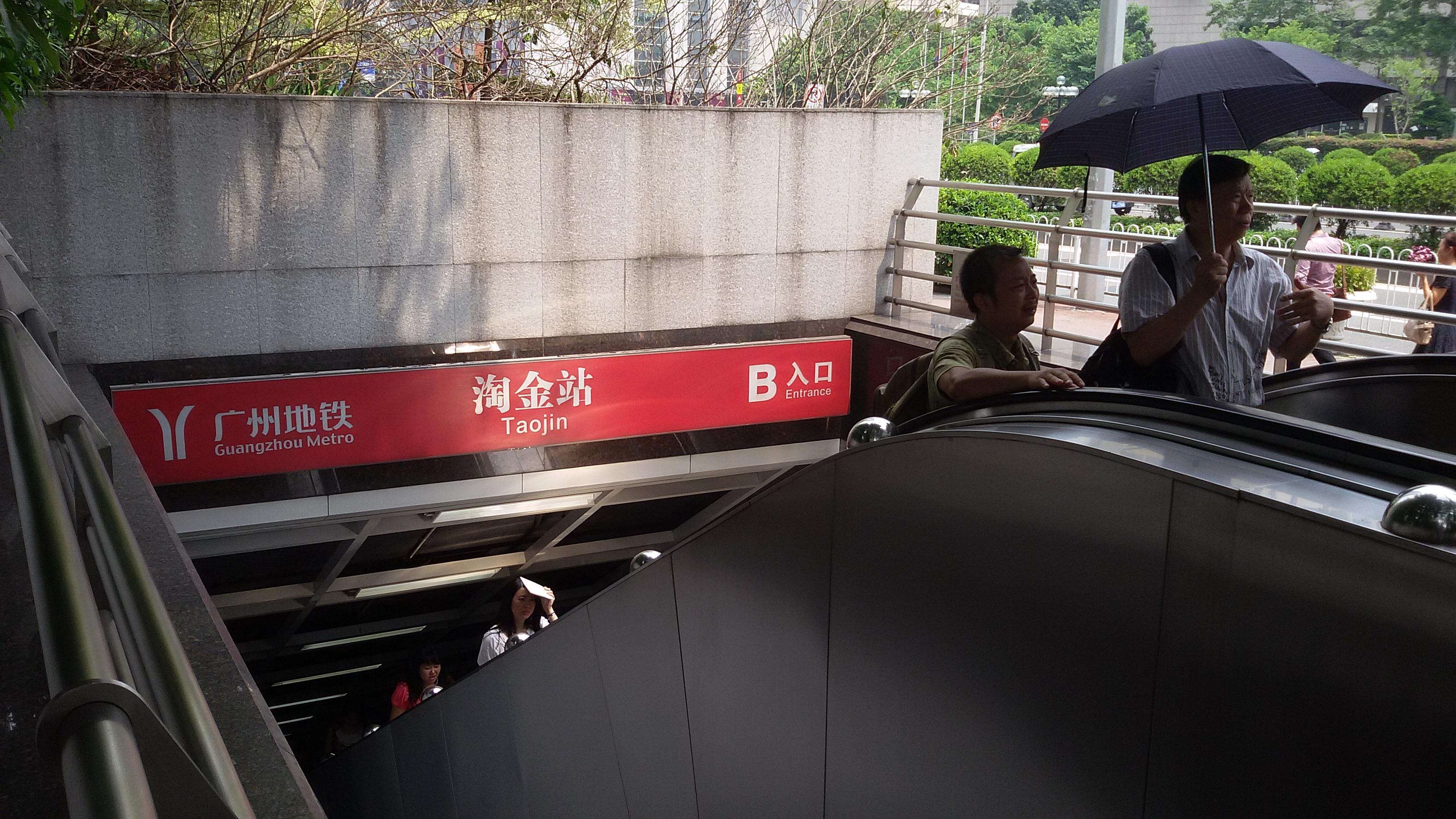 Exit B, Taojin Station, Guangzhou Metro 粵語: 廣州地鐵淘金站嘅B出入口